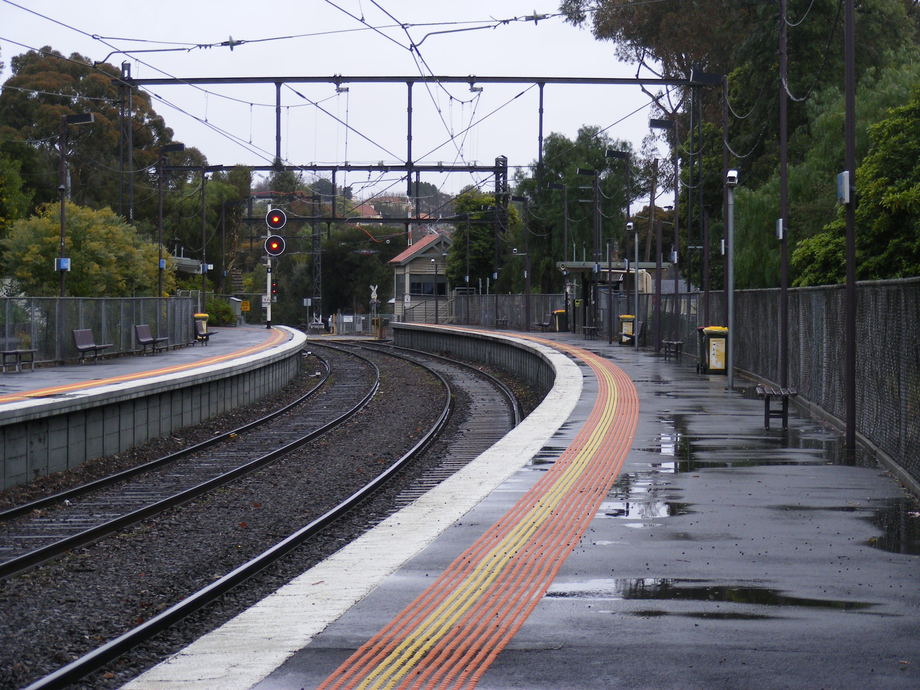 Looking west towards Flinders Street